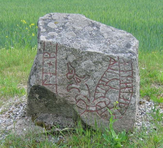 U 140, which is a fragment of a runestone located at Broby bro near Täby, in Uppland, Sweden.